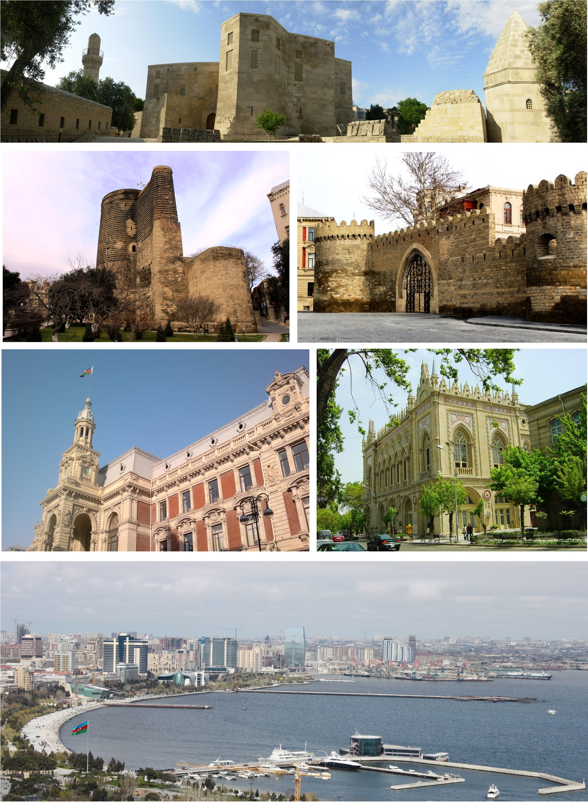 Montage of pictures of Baku used for the specific article. Composition of these pictures